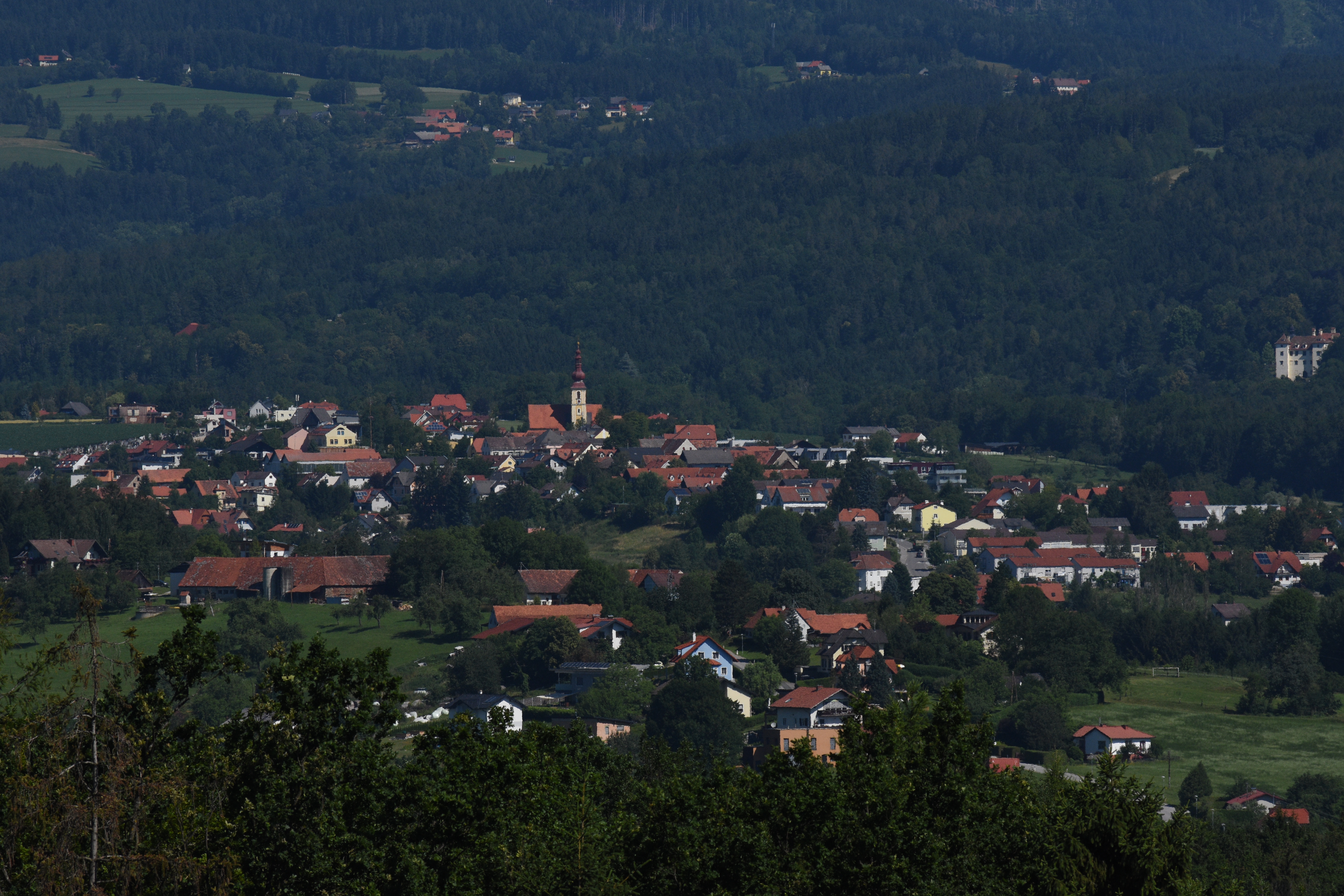 Kumberg